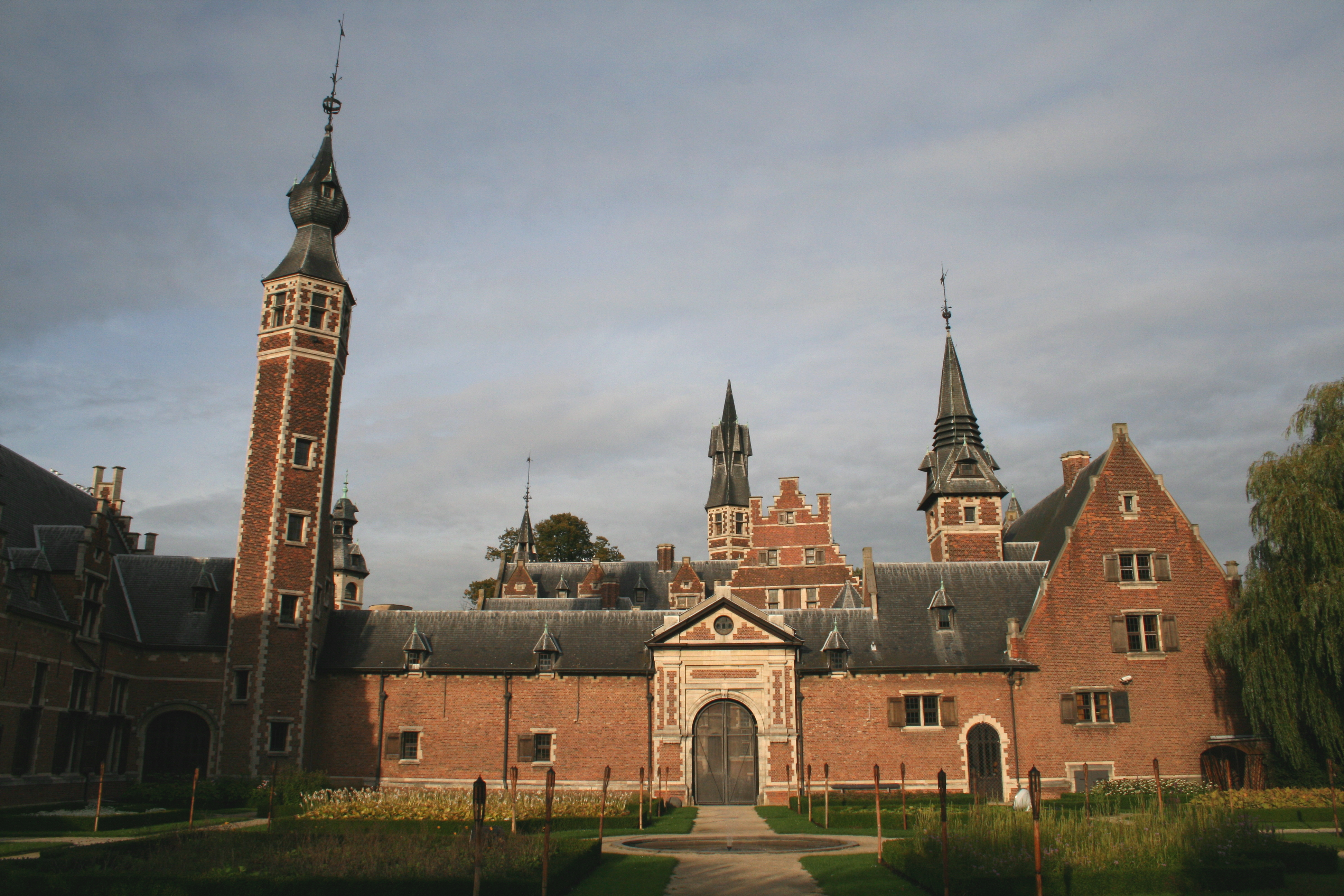 Antwerp, district of Deurne (Belgium): Sterckshof's castle (XVI-XVIIIth centuries).